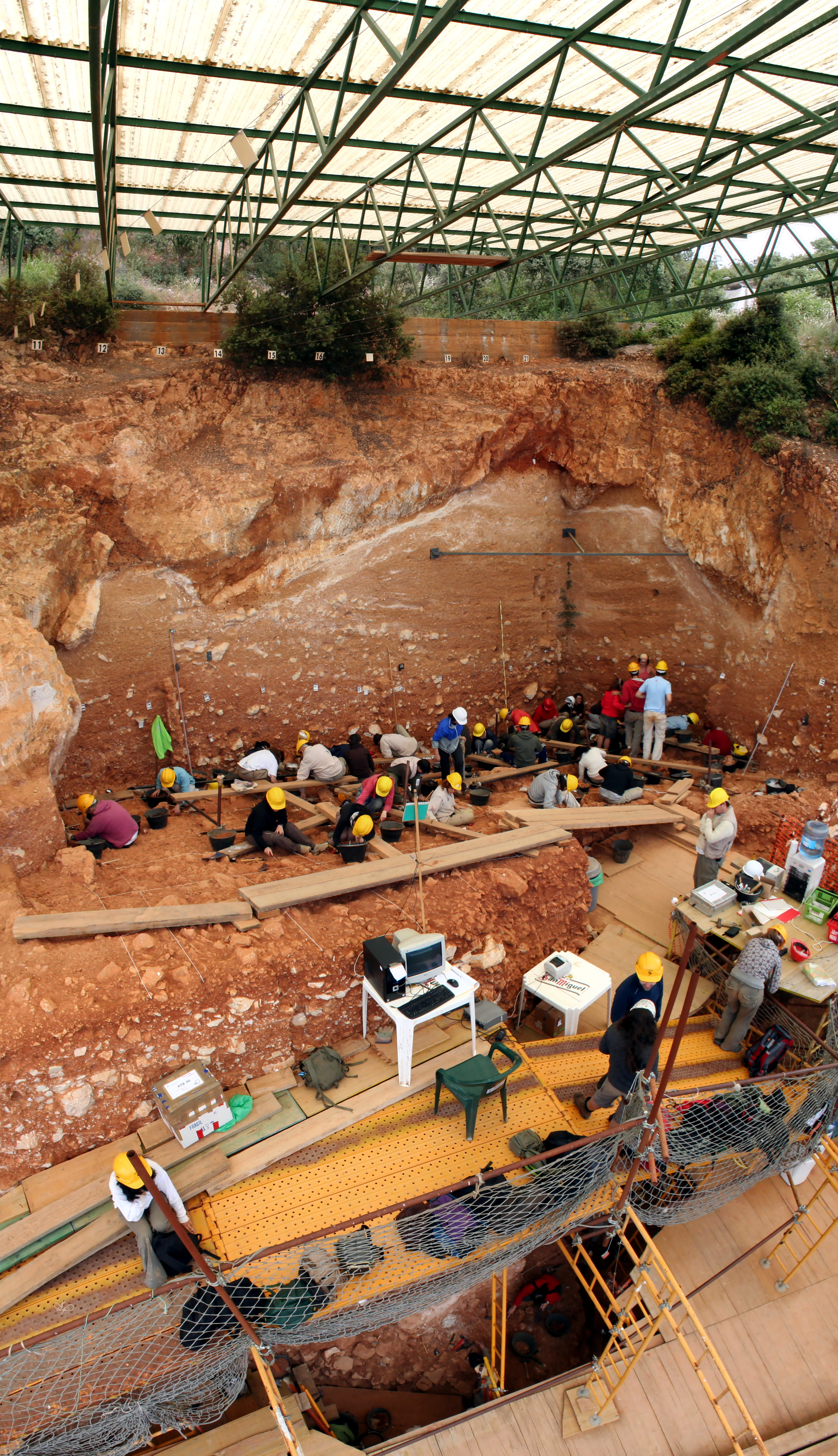 Excavations at the site of Gran Dolina, in Atapuerca (Spain), during 2008. Panoramic photography formed using 3 individual photographies with Hugin software. TD-10 archaeological level is being excavated where the most of the people are. It is a Homo heidelbergensis' camp. Under the plank, we can observe a woman with red sweatshirt excavating TD-6 archaeological level, where were found the first remains of Homo antecessor.